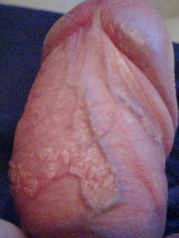 Fordyce spots shown on the penis shaft